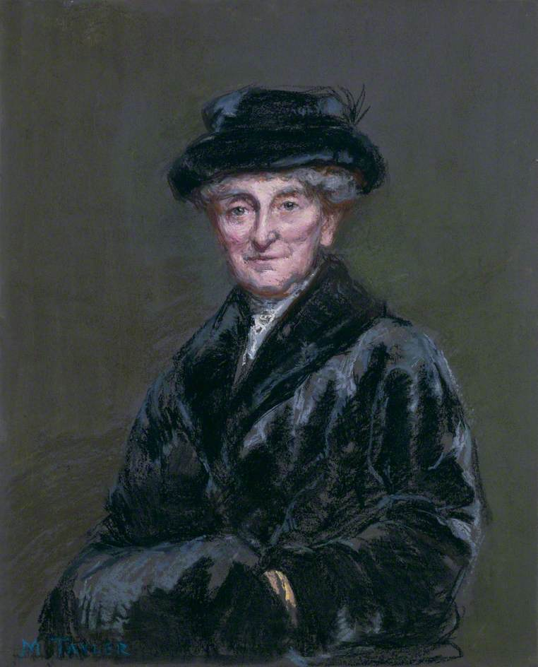 (Marianne) Harriet Mason (1845–1932), poor-law inspector. painting by "M.Taylor" before 1921 when it was given to Kew. date set at 1921 - images from Kew Gardens